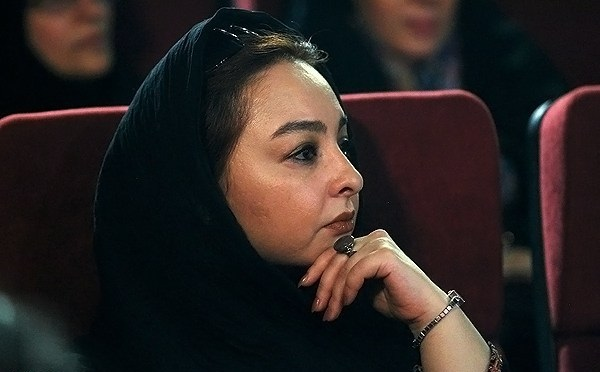 Mahaya Petrosian, Review meeting of "At the End of Pasteur Street" documentary